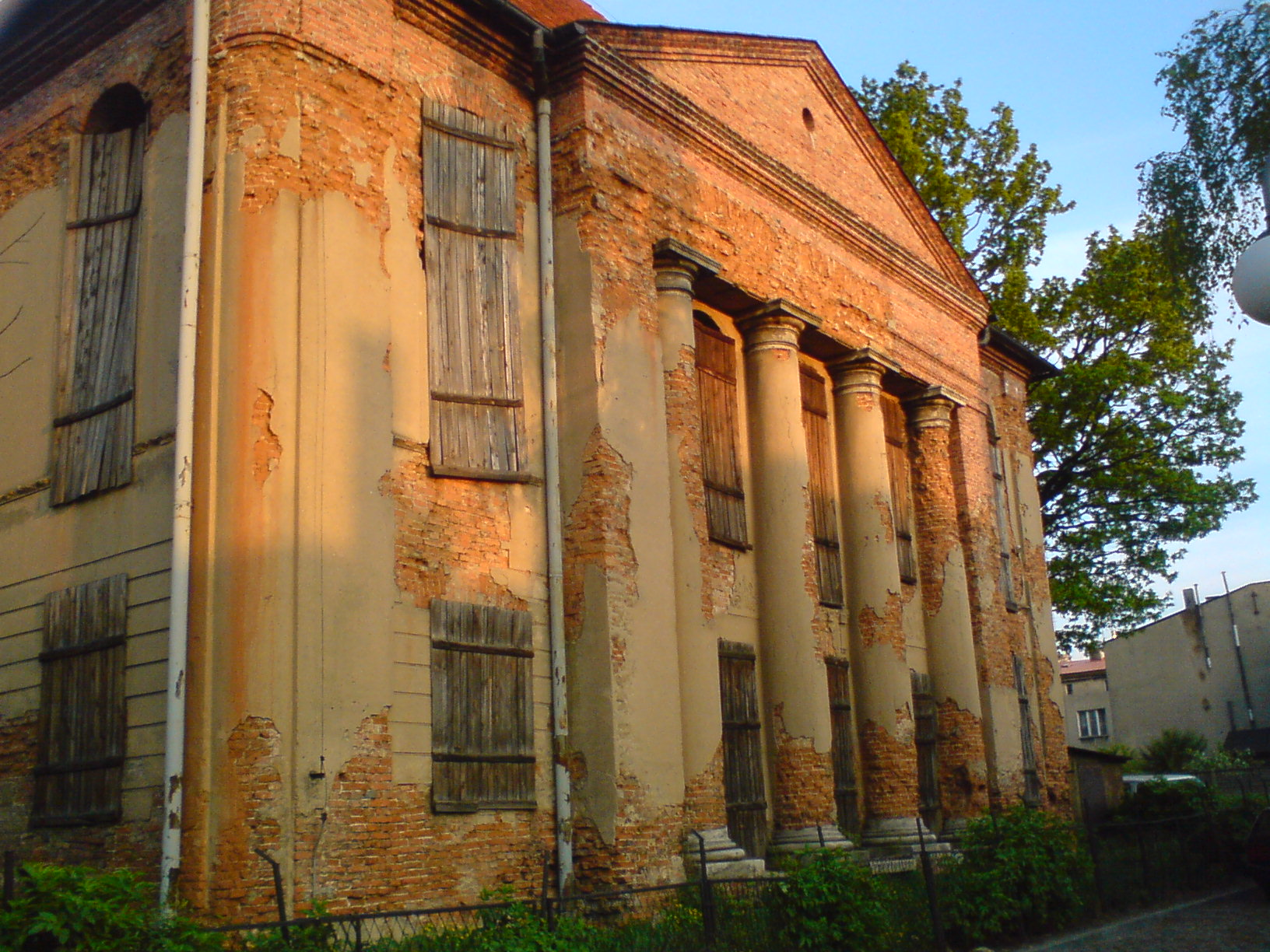 Synagogue in Kępno